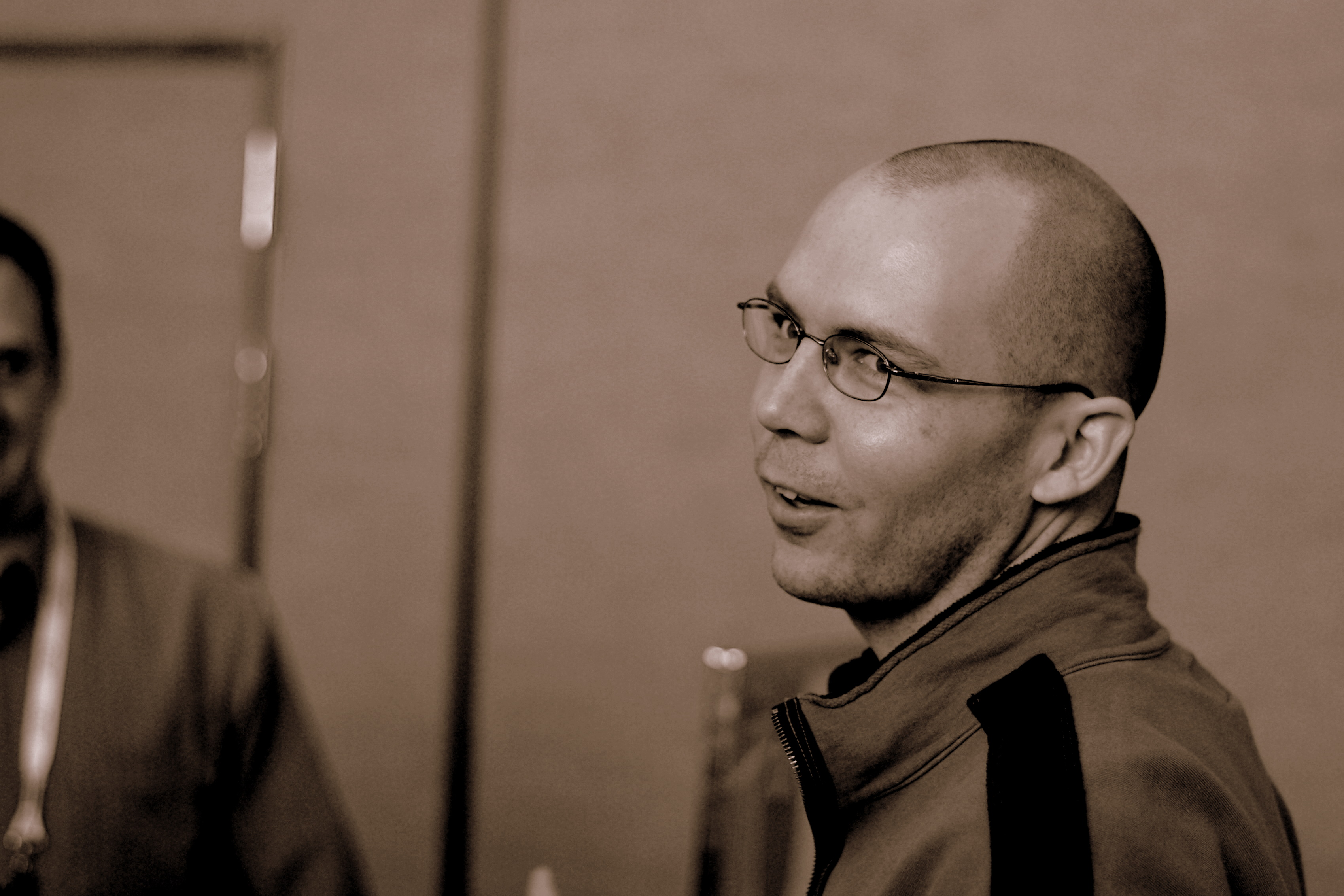 Jonathan Blow at the Game Developers Conference in 2007.